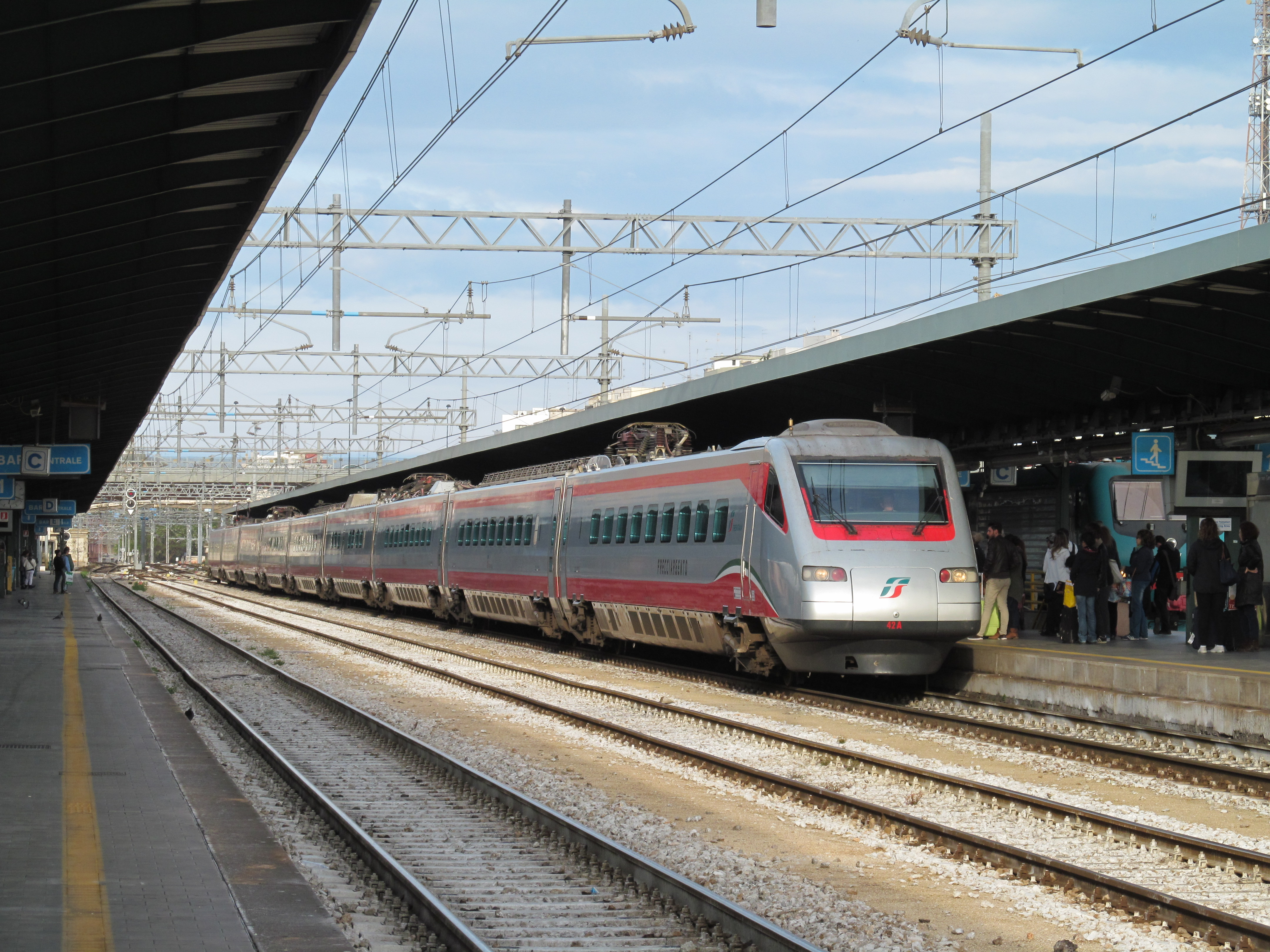 A Frecciargento service from Lecce to Rome, at Bari